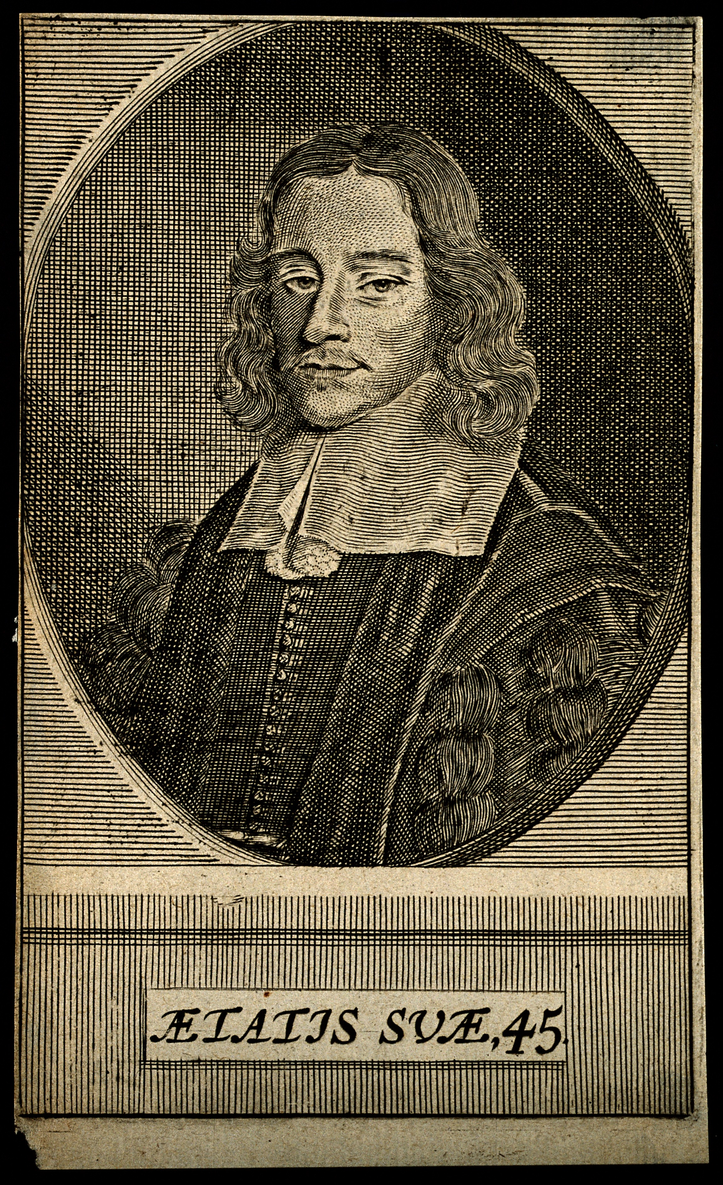 Thomas Willis. Line engraving after F. Diodati. Iconographic Collections Keywords: portrait prints; engravings; Thomas Willis